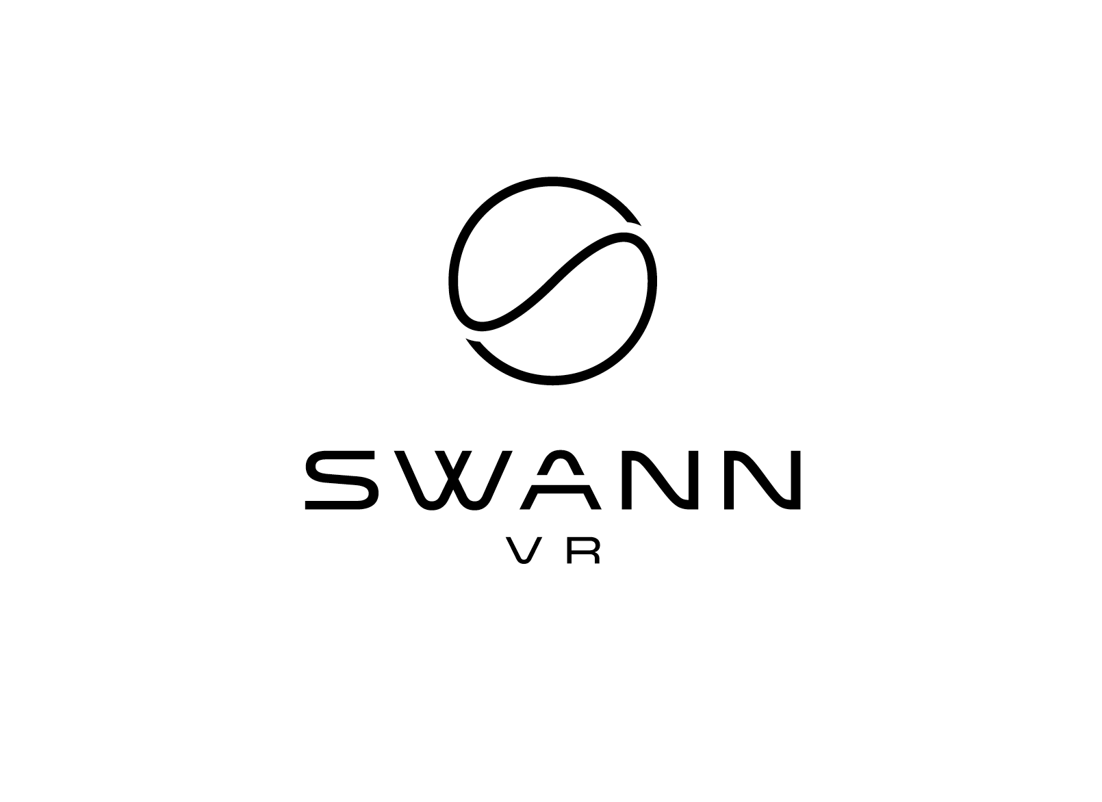 Swann VR logo released to press